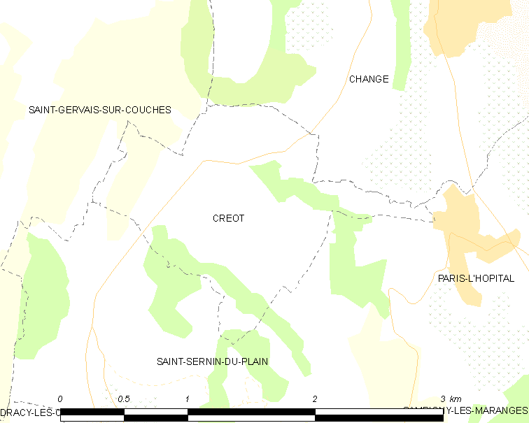 Map of French municipality